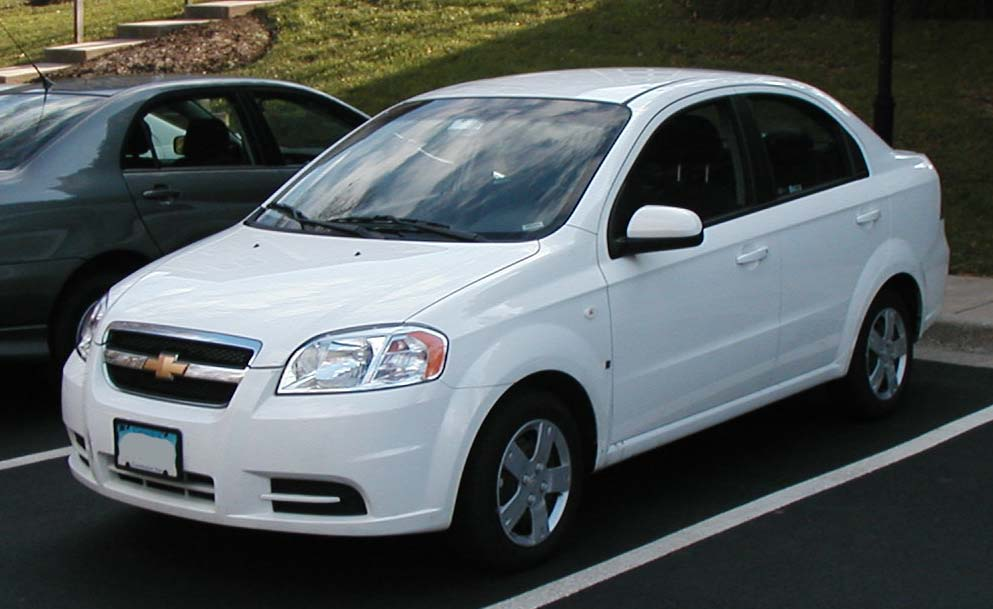 2007 Chevrolet Aveo photographed in USA.